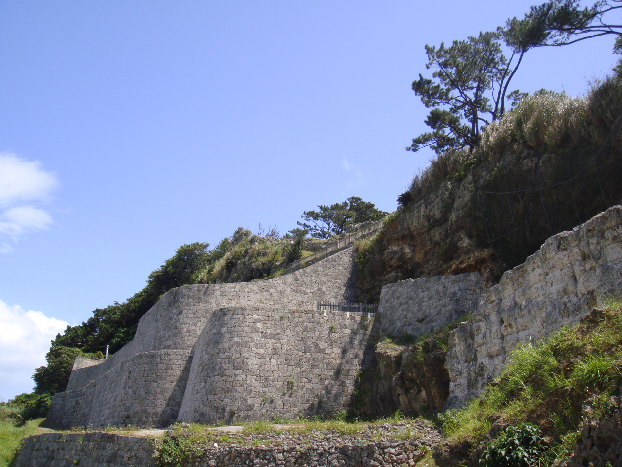 Urasoe Youdore, Okinawa, Japan. Trees are Pinus luchuensis. (Sony Cyber-shot T77)